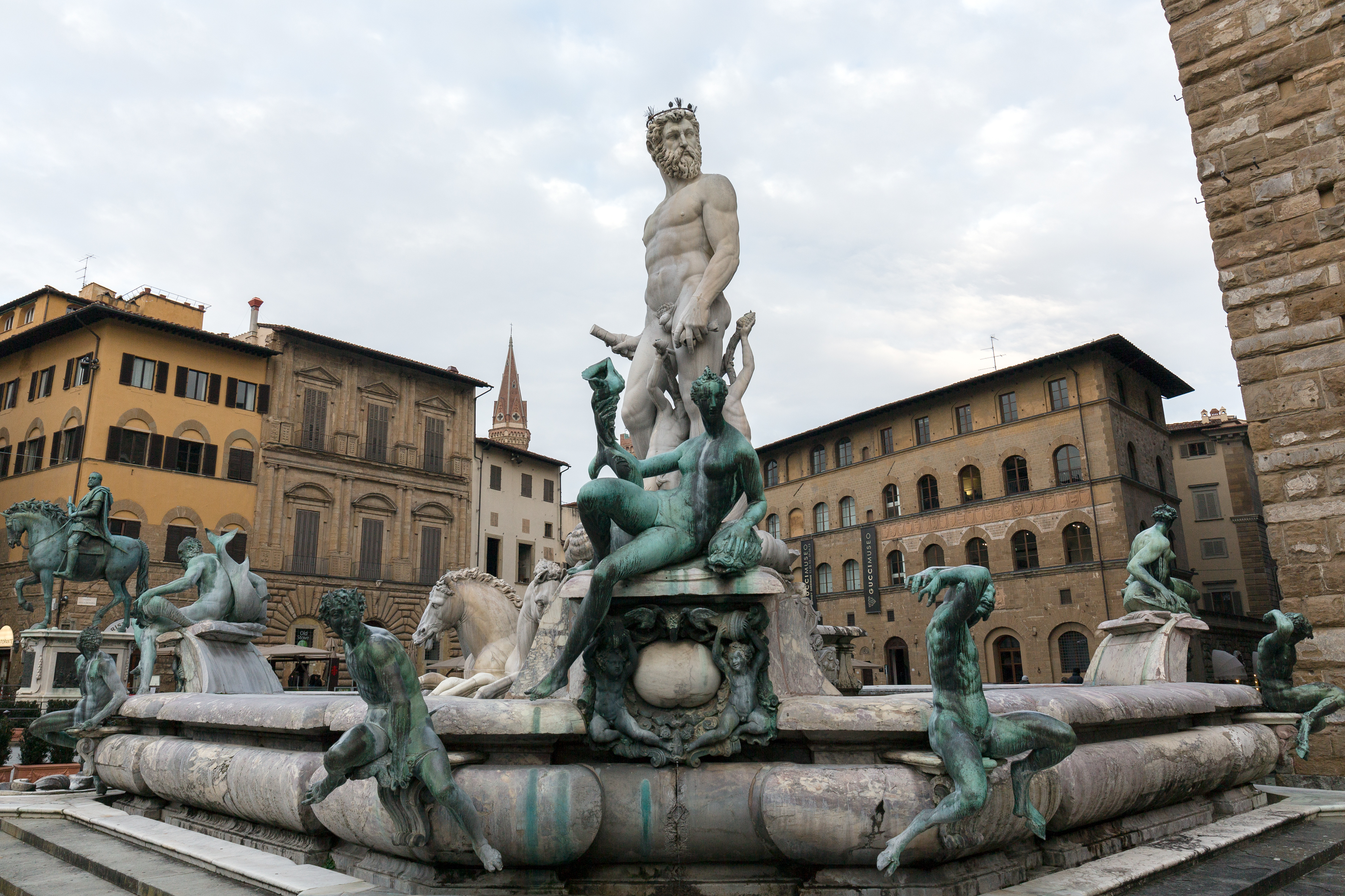 Fontana del Nettuno